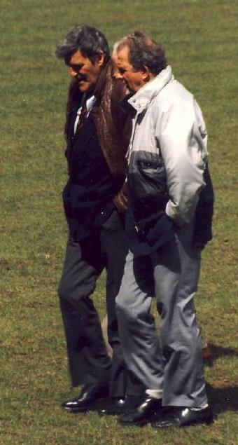 A picture of former Fulham players Jimmy Hill and Maurice Cook, standing on a football pitch.